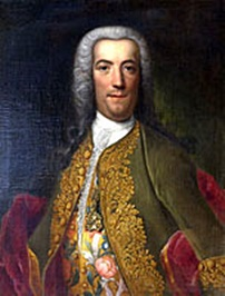 Joseph Fontanesi (+ 1795) kurpfälzischer Geheimrat, Förderer der Stadt Frankenthal (Pfalz)